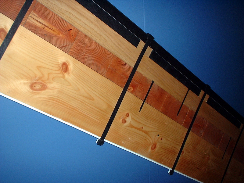 Detail cut away view of the casemate, of the C.S.S. Virginia. This depicts the 4 inches of iron armor ( 2, 2 inch layers) and the total of 24 inches of wooden beams that served to support the casemate and absorb the shock of impact of cannon shot. Mariners' Museum, Newport News